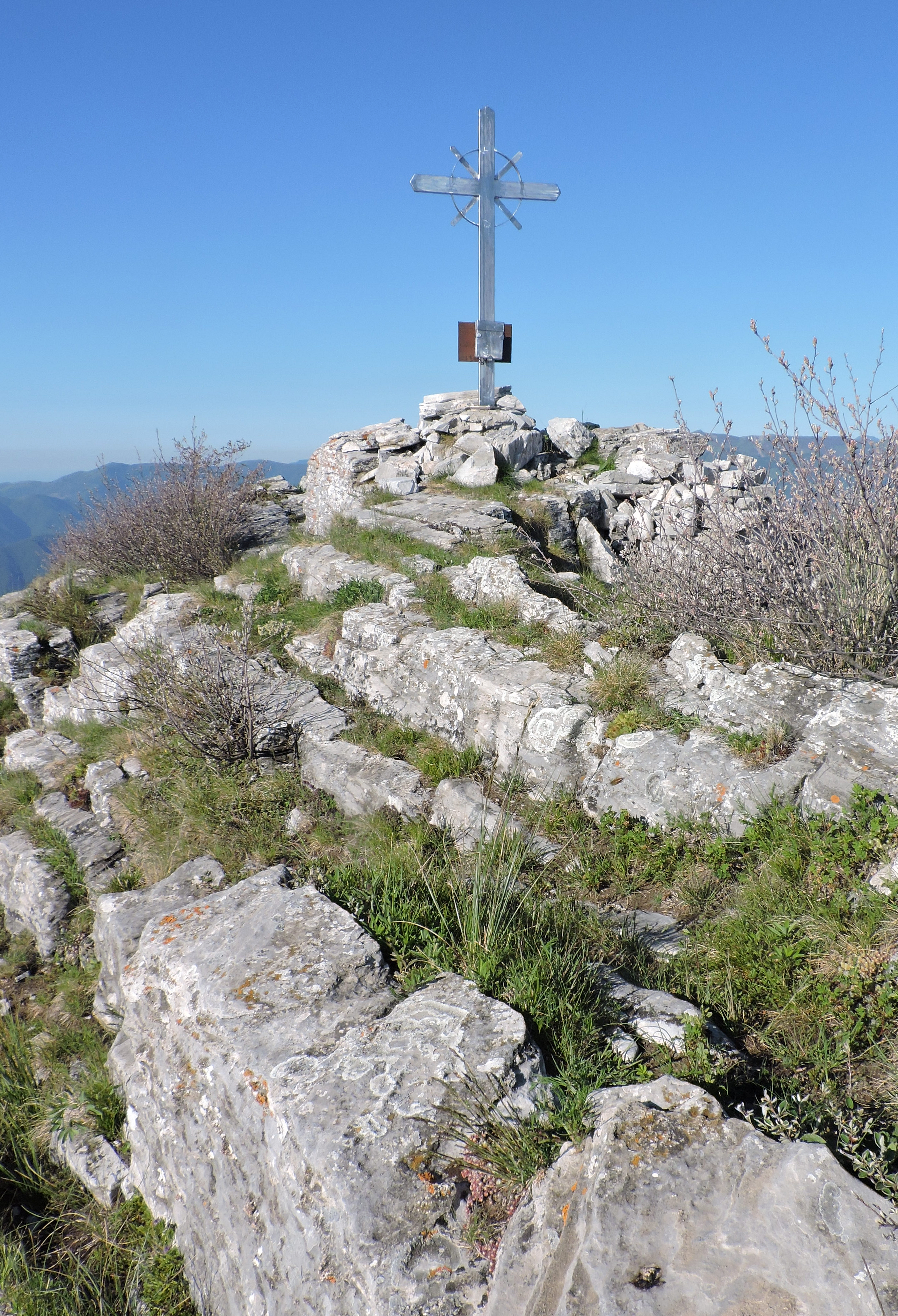 Monte della Guardia (Prealpi Liguri): the cross standing on its on the SW subsummit